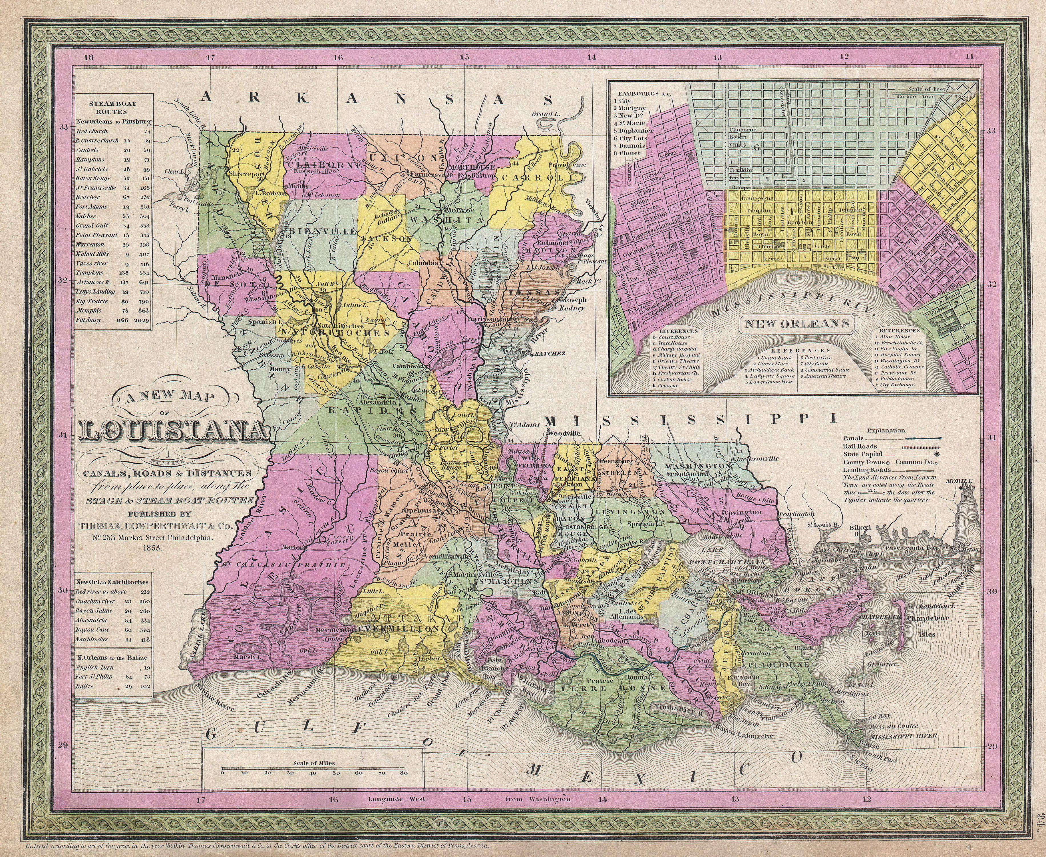 An extremely attractive example of S. A. Mitchell Sr.’s 1853 map of Louisiana. Depicts the entire state color coded according to individual counties. Shows canals and roads with notations regarding steamboat and overland mileage. A large inset in the upper right hand quadrant offers a detailed city plan of central New Orleans. Shows grid structure, districts, important buildings, piers and wharfs. Surrounded by the green border common to Mitchell maps from the 1850s. Prepared by S. A. Mitchell for issued as plate no. 30 in the 1853 edition of his New Universal Atlas . Dated and copyrighted, “Entered according to act of Congress, in the year 1850, by Thomas Cowperthwait & Co., in the Clerks office of the District court of the Eastern District of Pennsylvania.